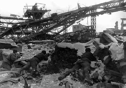 Soviet soldiers crawling in the rubbles of Stalingrad.